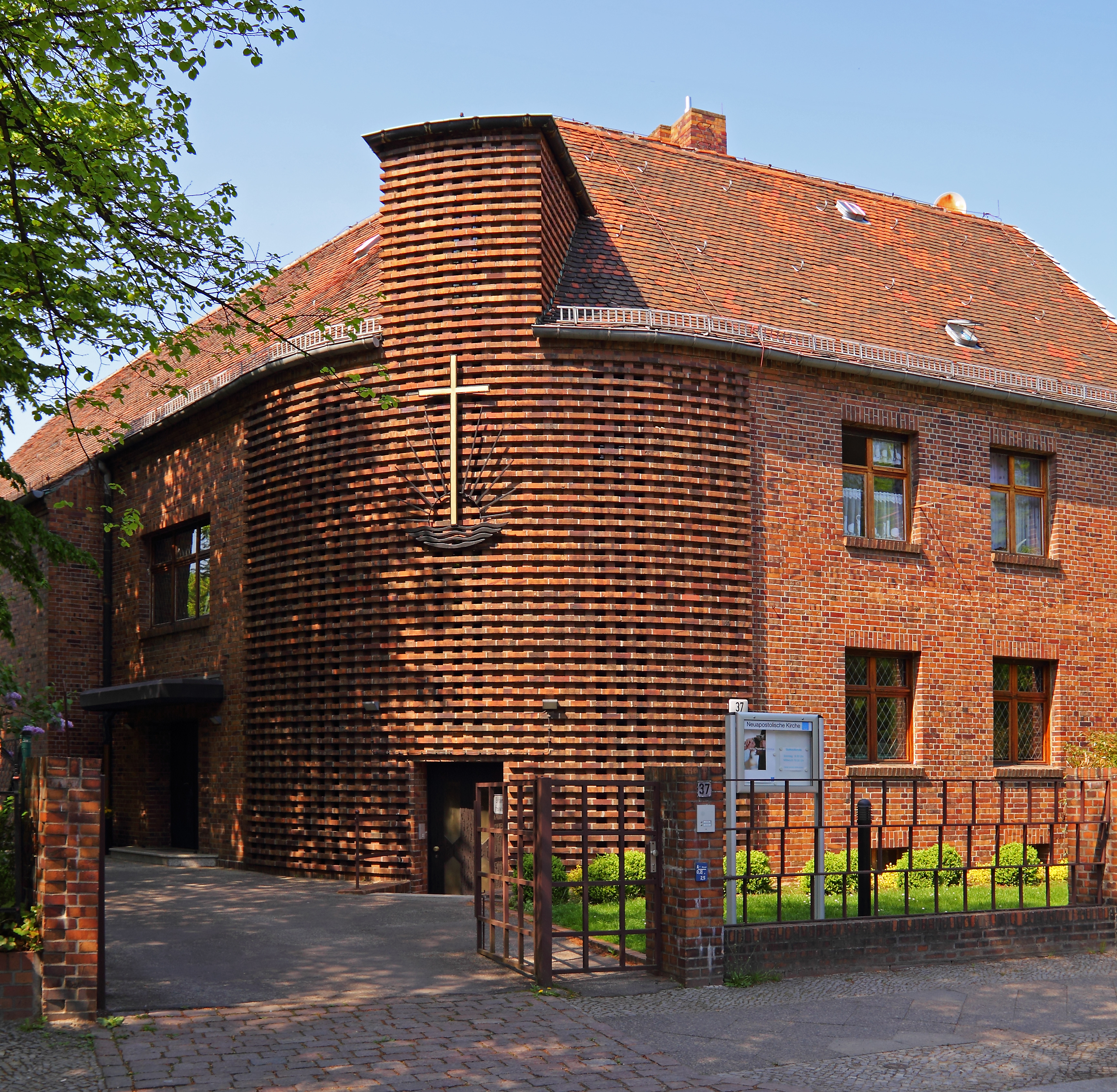 Berlin-Weißensee, Gartenstraße, New Apostolic church